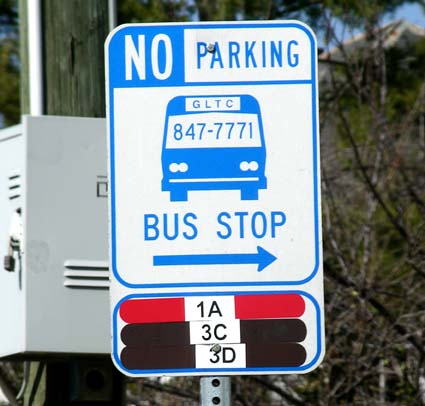 Greater Lynchburg Transit Company bus stop sign